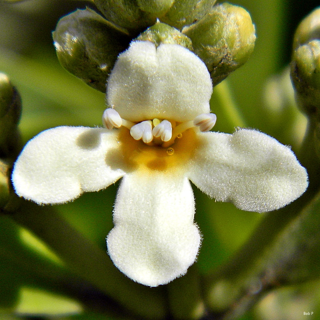 The black mangrove trees are blooming, much to the delight of the bees. This one lives right outside my apartment.